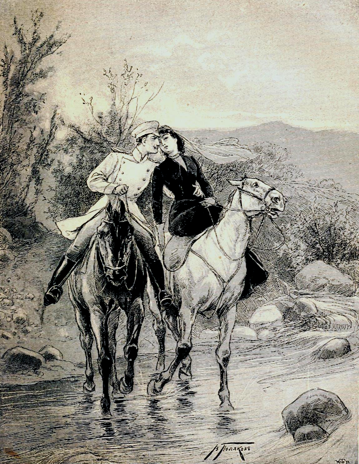 Book illustration,"Hero of our time" by Lermontov, "Pechorin and princess Mary"